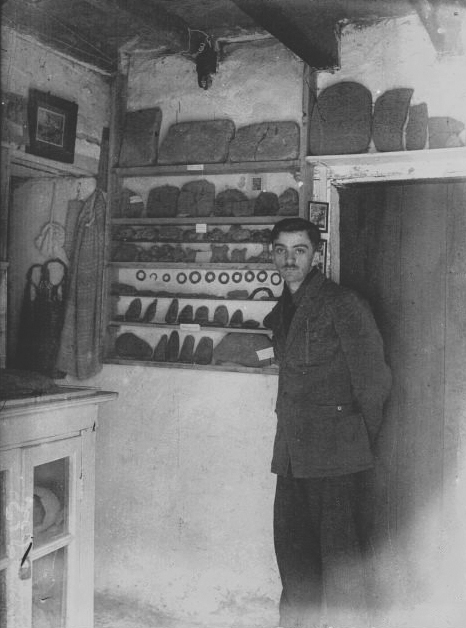 Young Emile Fradin inside his museum at Glozel (Ferrières-sur-Sichon, Allier, France).